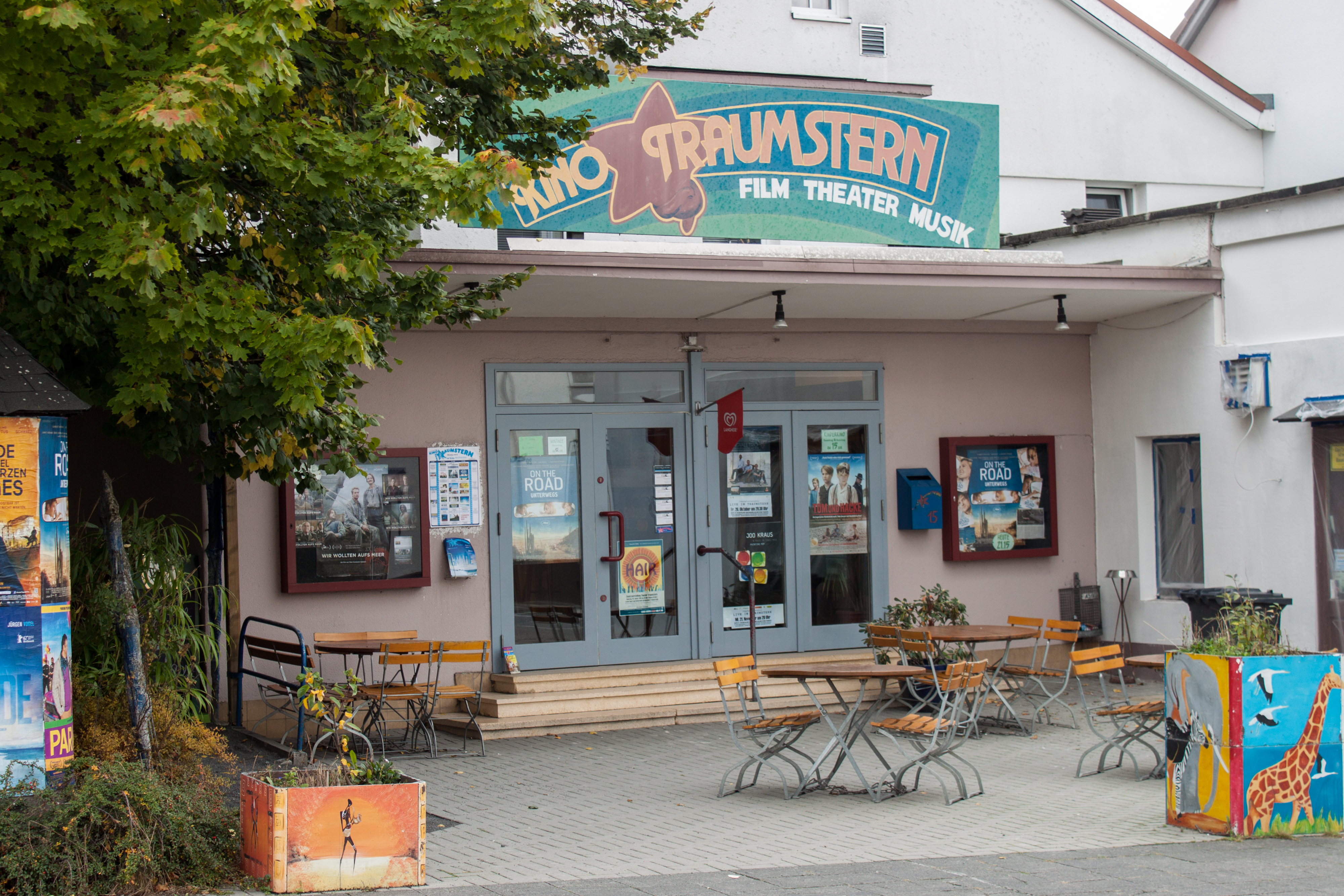 Cinema Traumstern in Lich (Hesse), October 2012.